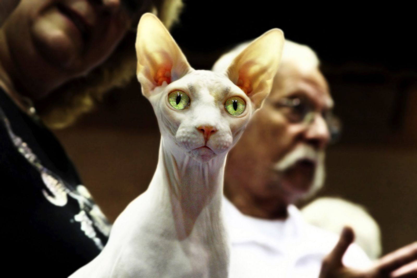 Sphynx cat at a cat show.